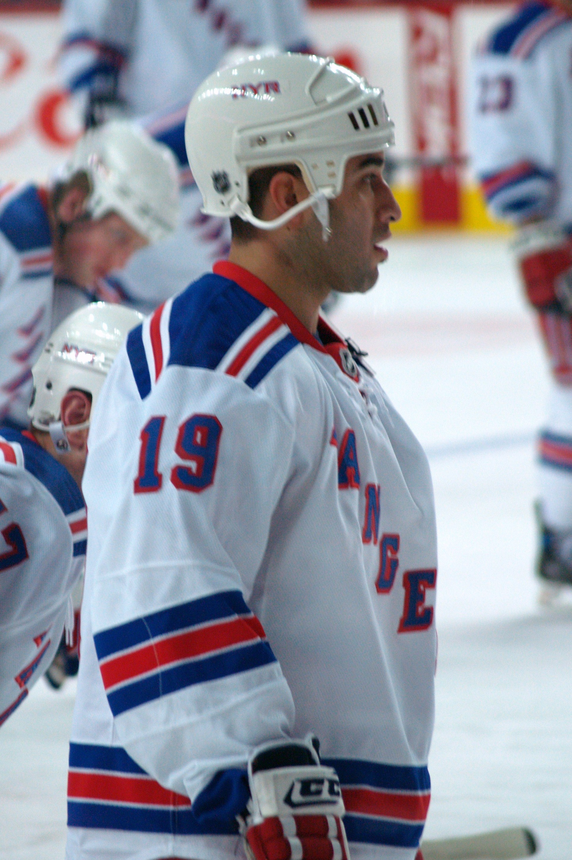 Scott Gomez of the New York Rangers before a game against the Calgary Flames